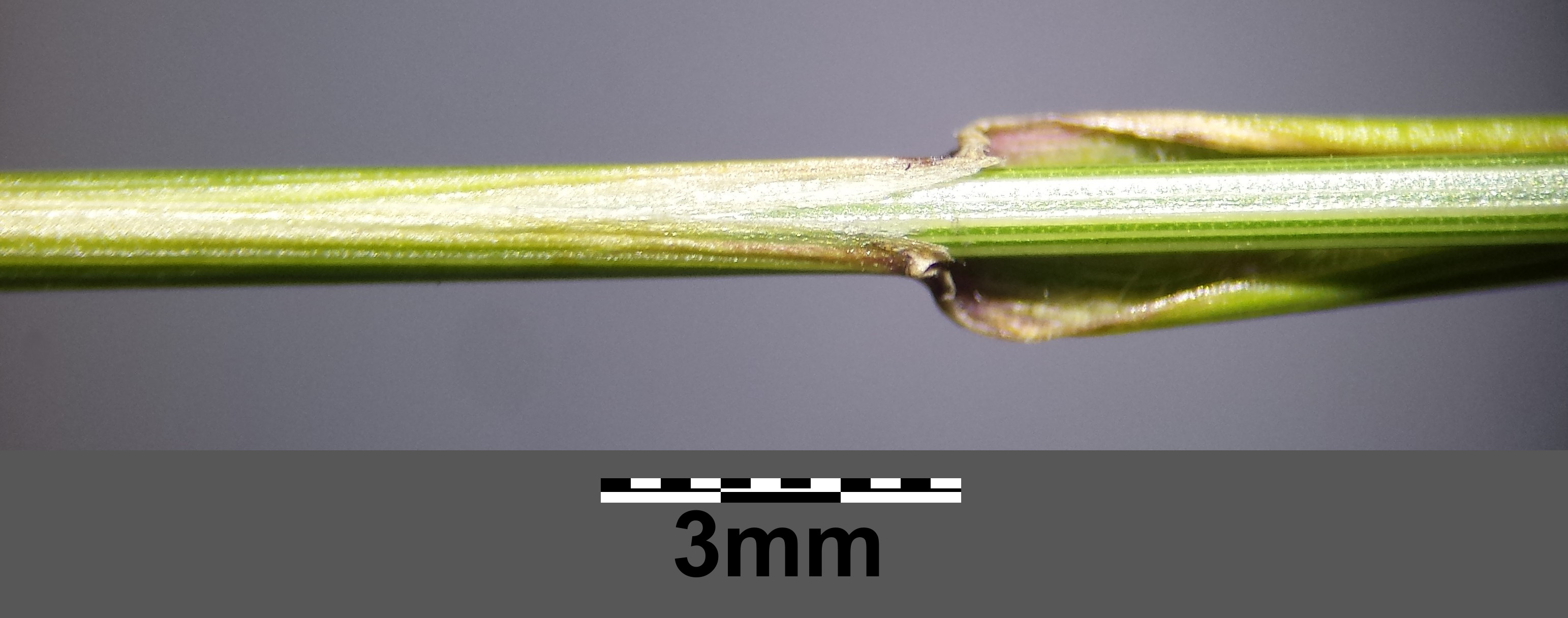 Stipe with leaf Taxonym: Agropyron pectiniforme ss Fischer et al. EfÖLS 2008 ISBN 978-3-85474-187-9 Location: Neue Donau, district Korneuburg, Lower Austria - ca. 160 m a.s.l. Habitat: dry slope